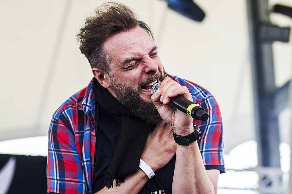 Neuroticfish, photographed at the Blackfield Festival 2013 in Gelsenkirchen, Germany